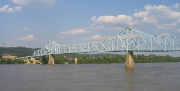 Original Ironton–Russell Bridge.